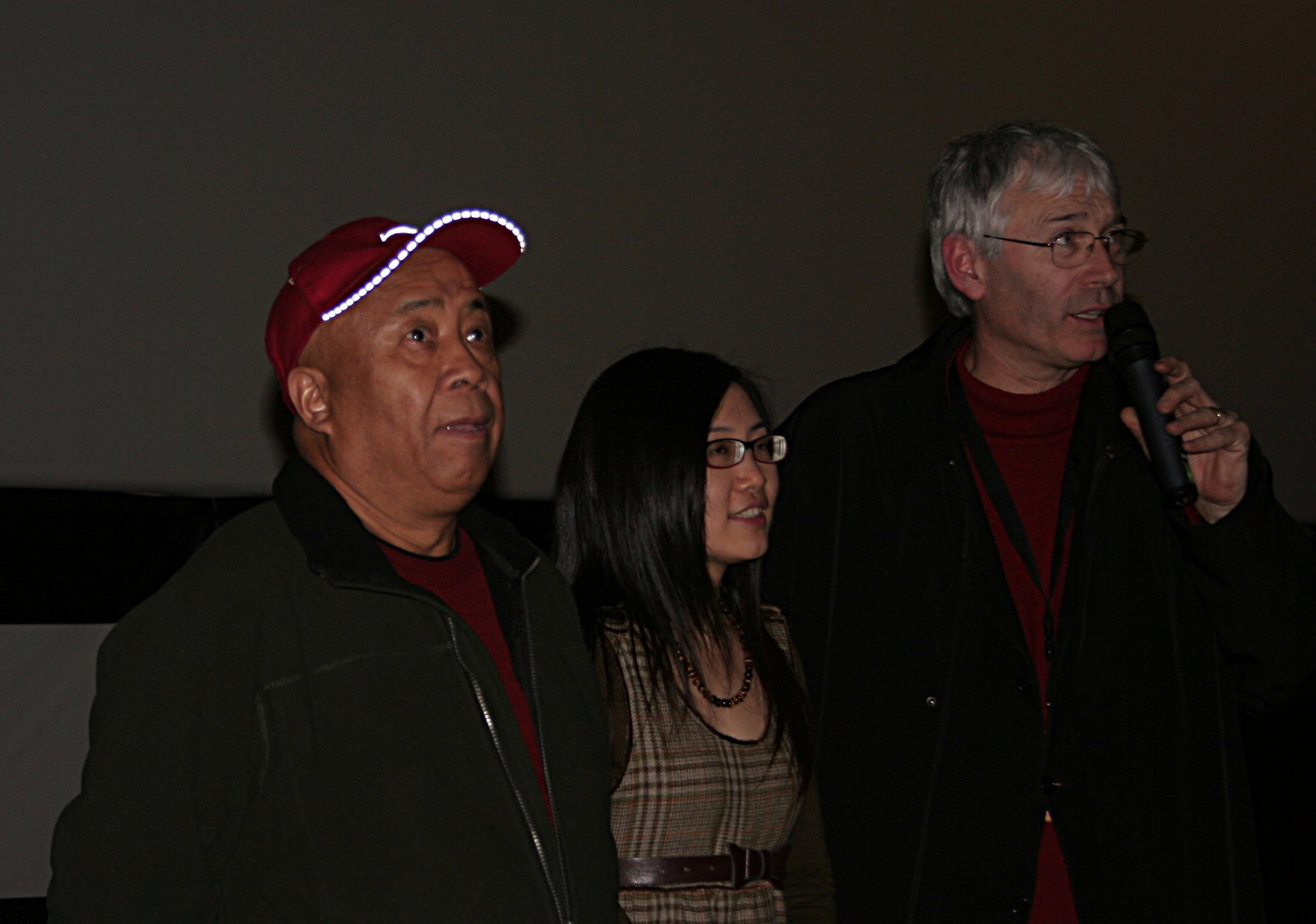 From left to right: Wu Tianming, his interpret and Jean-Marc Thérouanne presenting C.E.O.